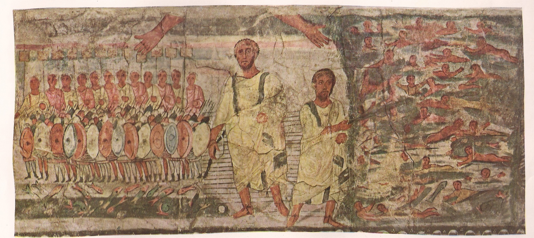 Wall painting from Dura Europos synagogue